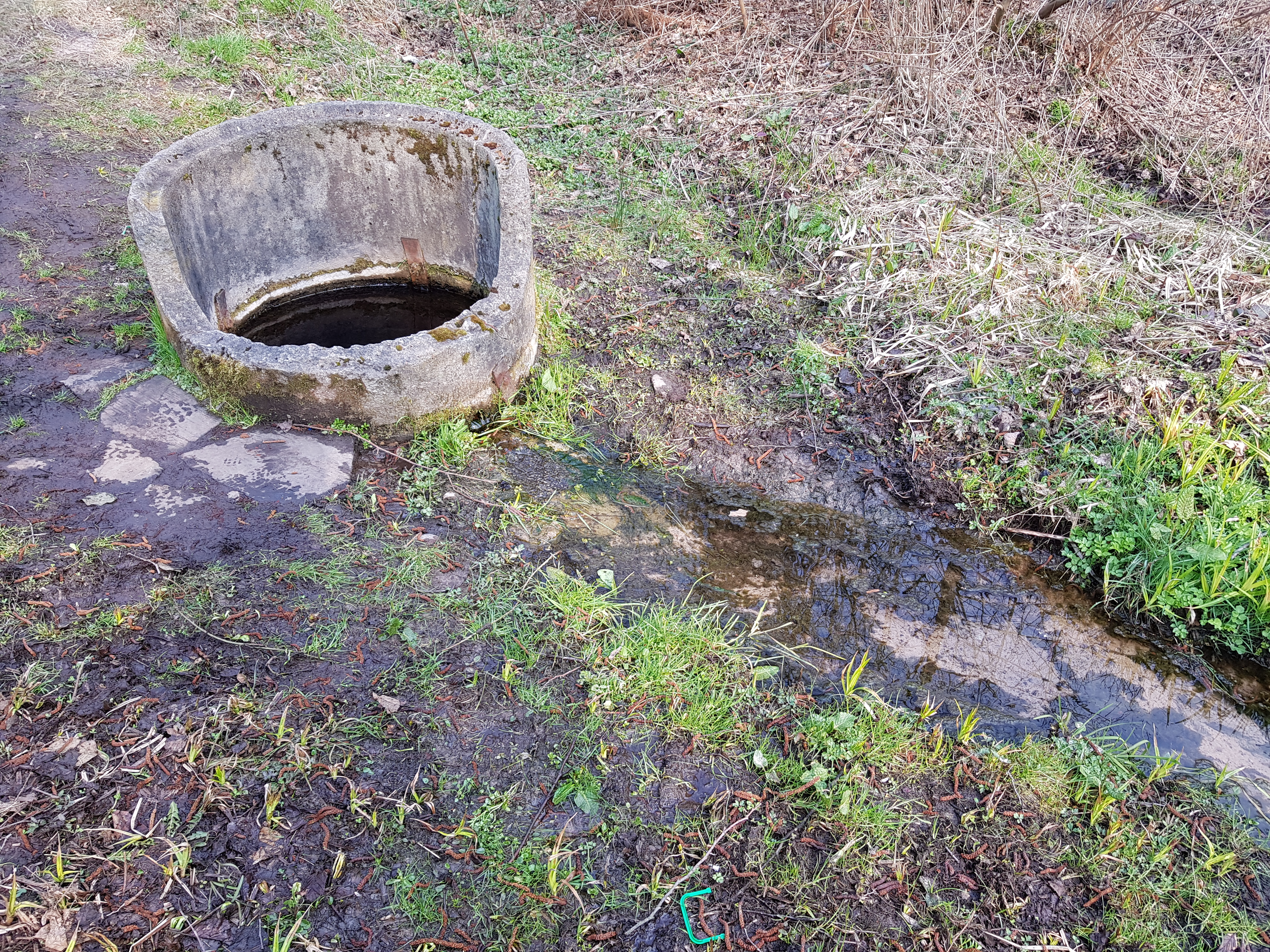 Source of Bobrza river, Poland